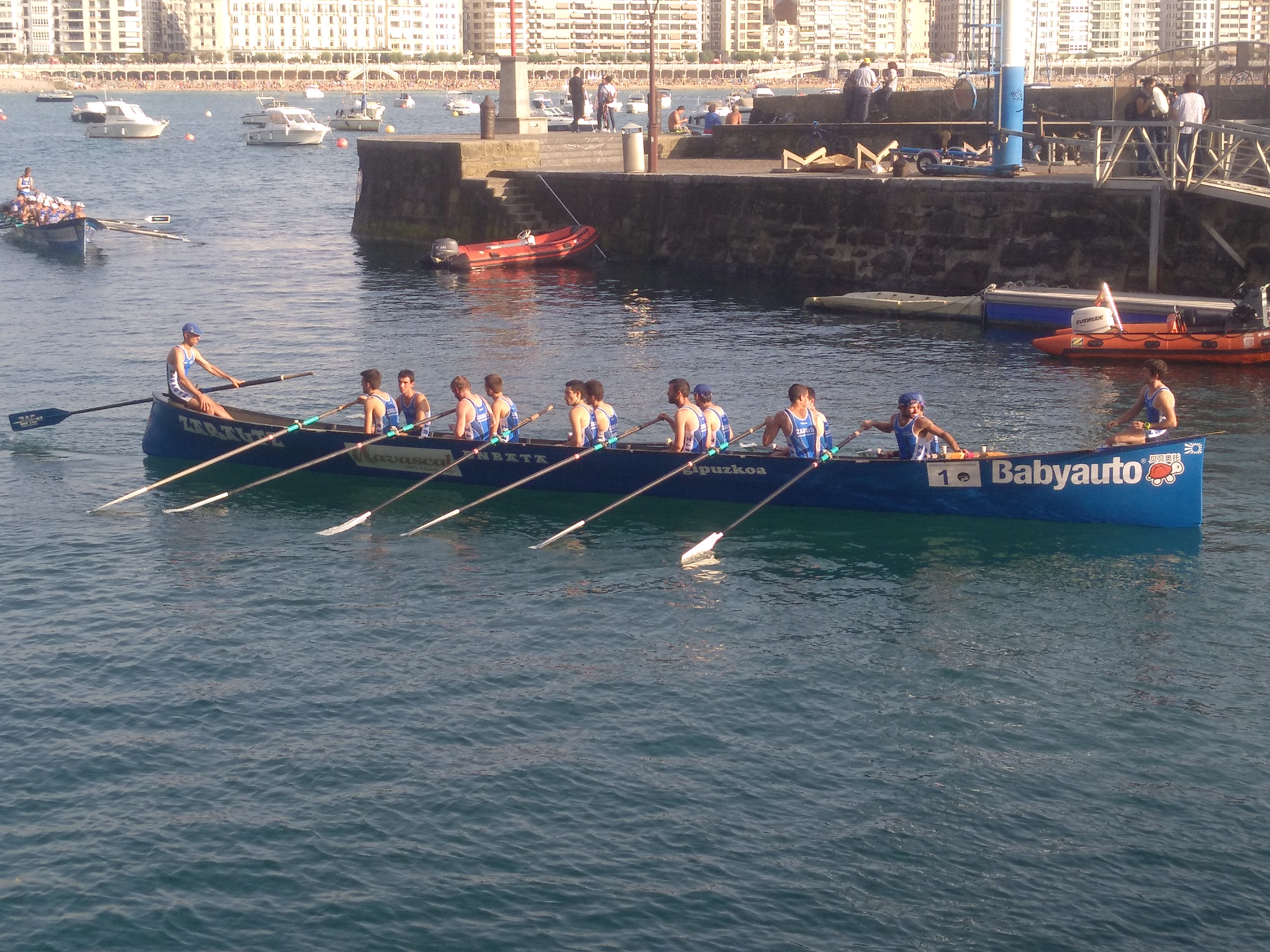 Zarautz Arraun Elkartea, Flag of La Concha, 2018